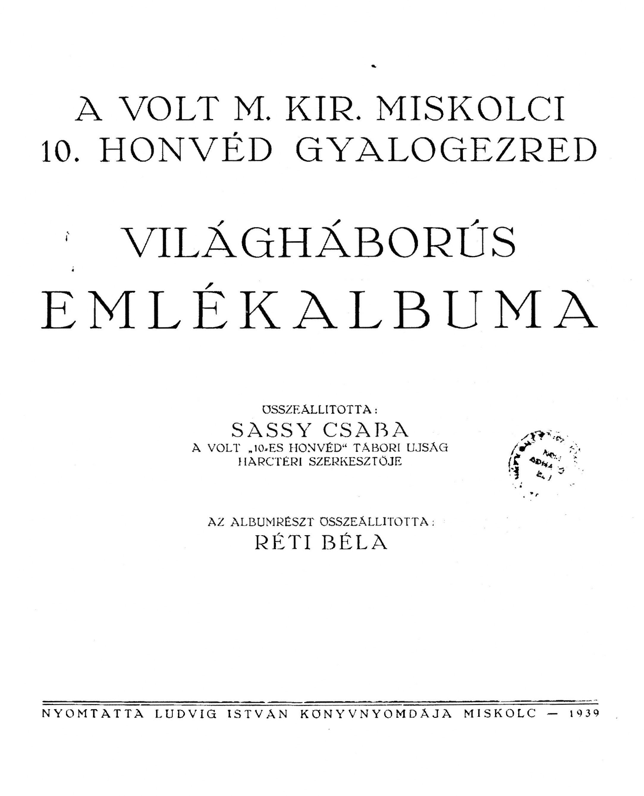 Memorial Book Inner Title Page